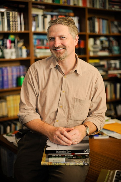 Dr. Paul Copan